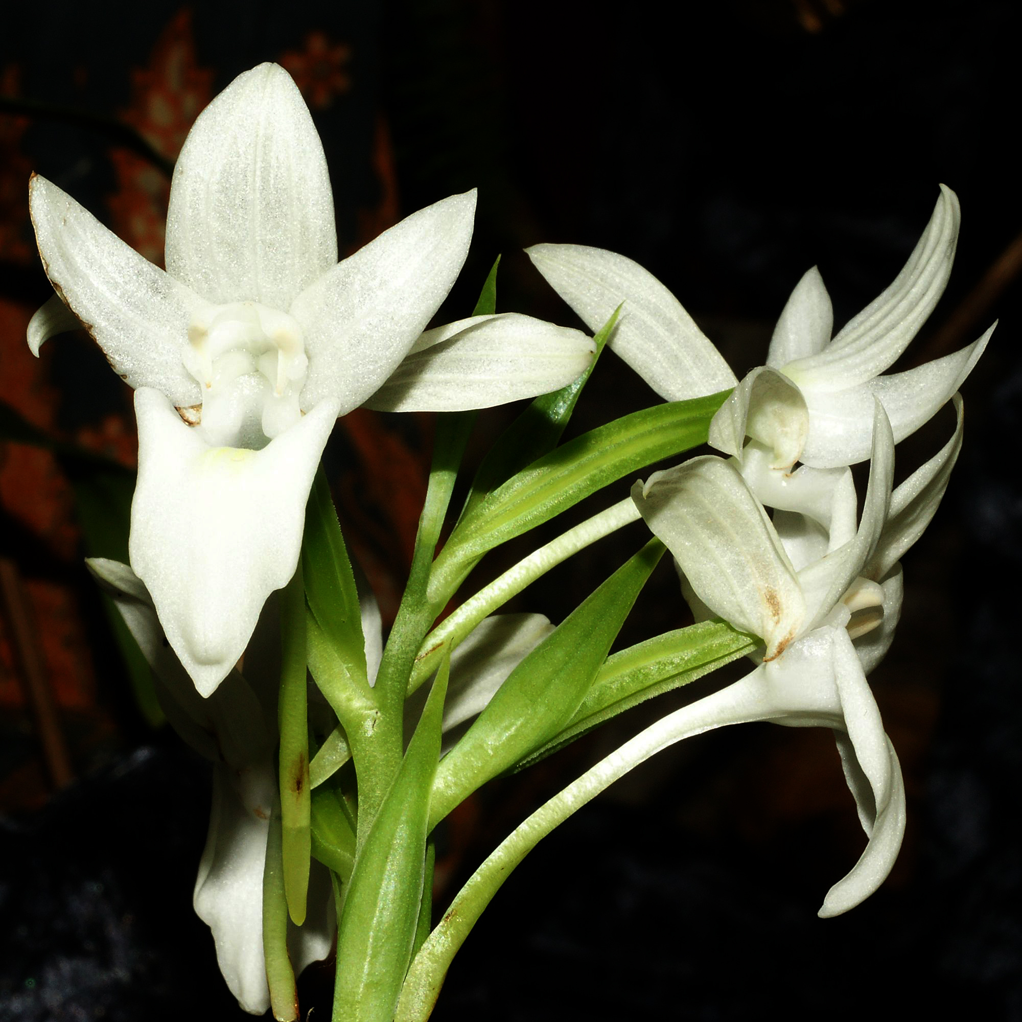 Pecteilis hawkesiana